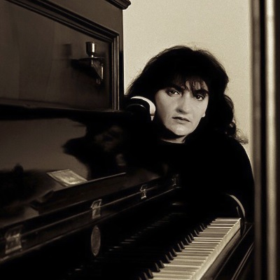 Portrait of Maria Luisa Santella - Augusto De Luca photographer